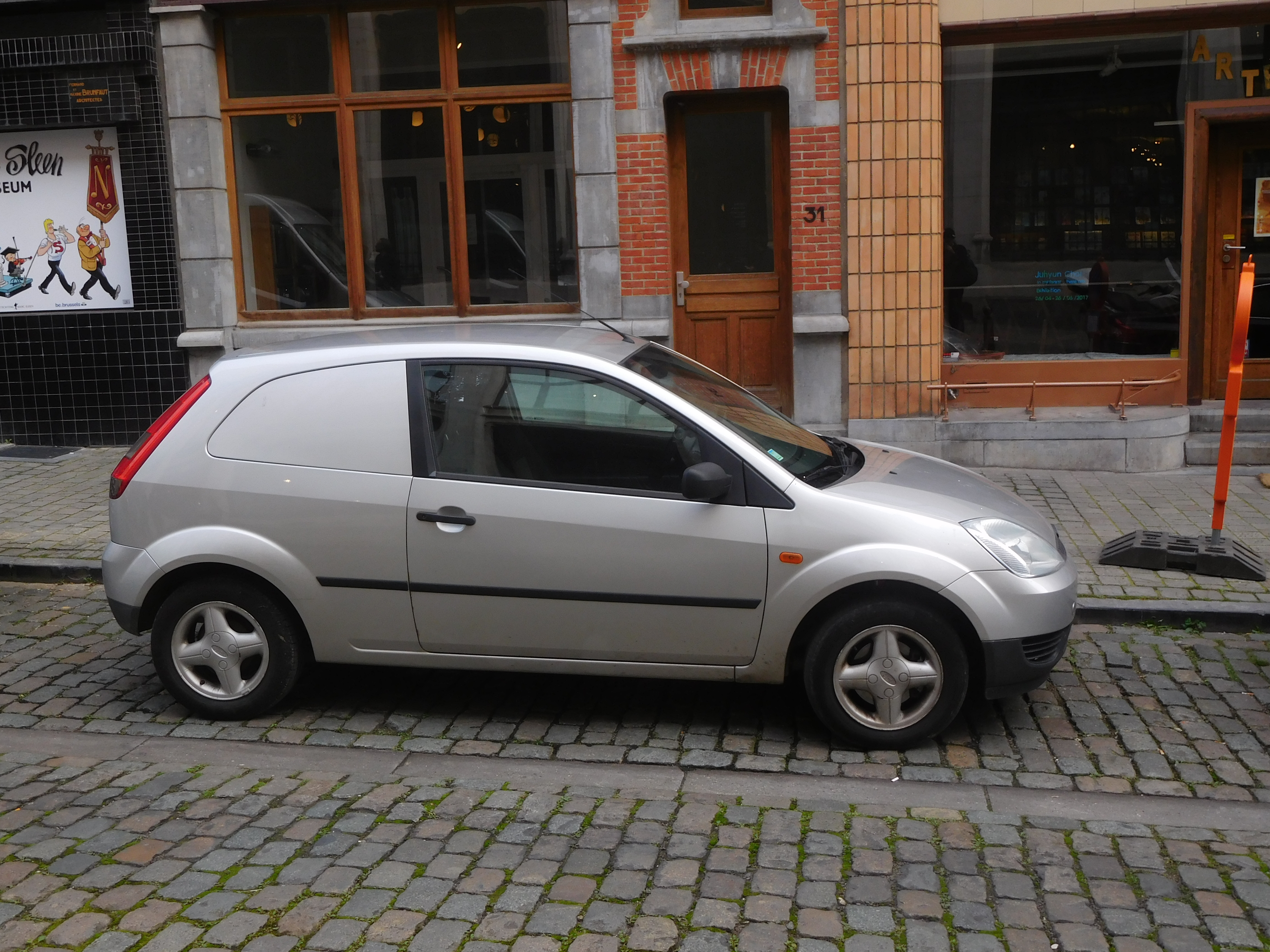 rare Ford fiesta MK5 spotted in Brussels